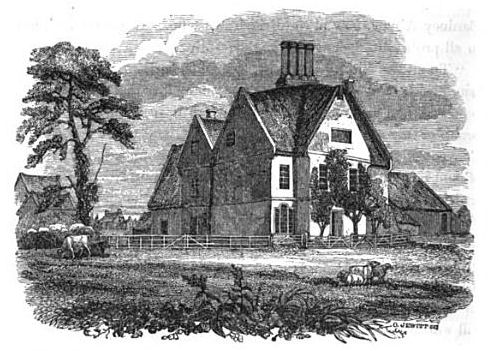 NortholmeHall. Now in Public Domain as publised prior to 1941.